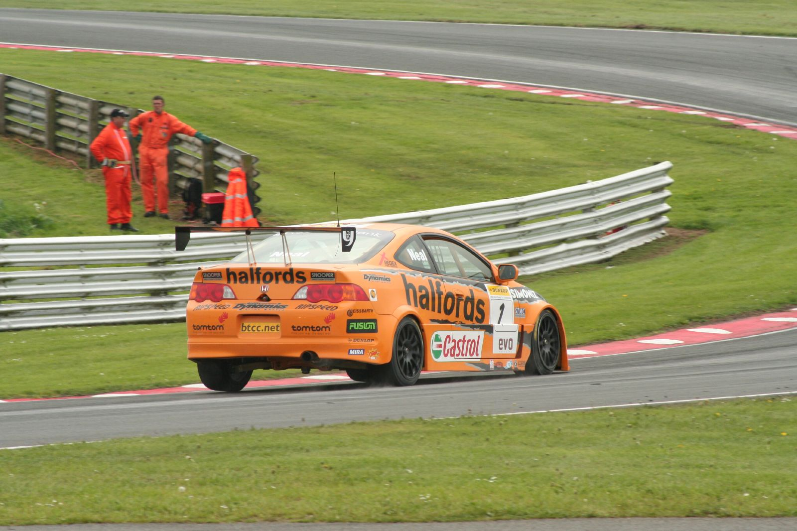 Matt Neal driving for Honda at the Oulton Park round of the 2006 British Touring Car Championship.